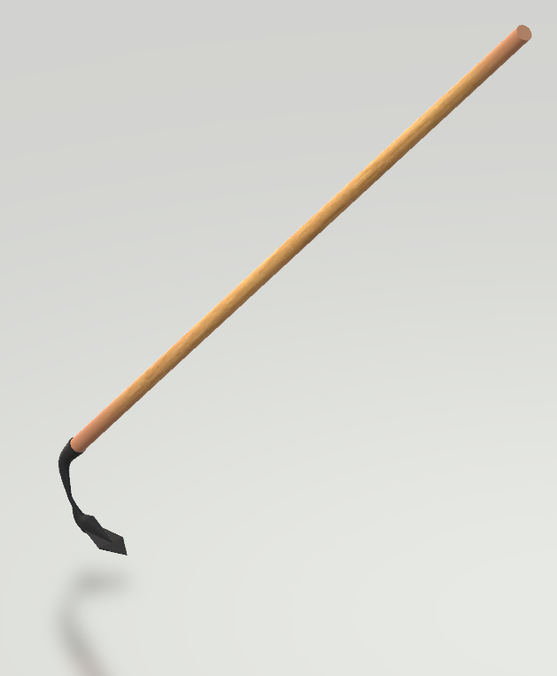 Single tine cultivator